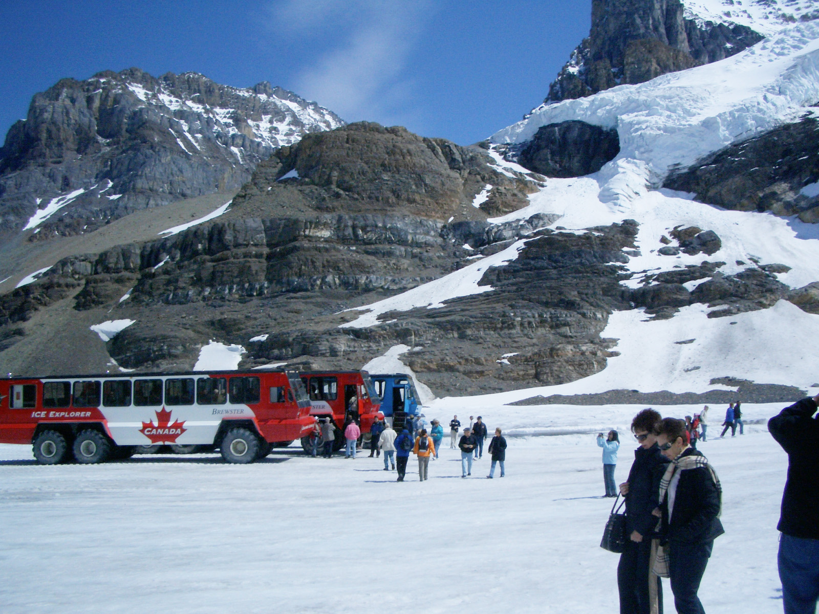 Visitors to the Columbia Icefield, Western Canada